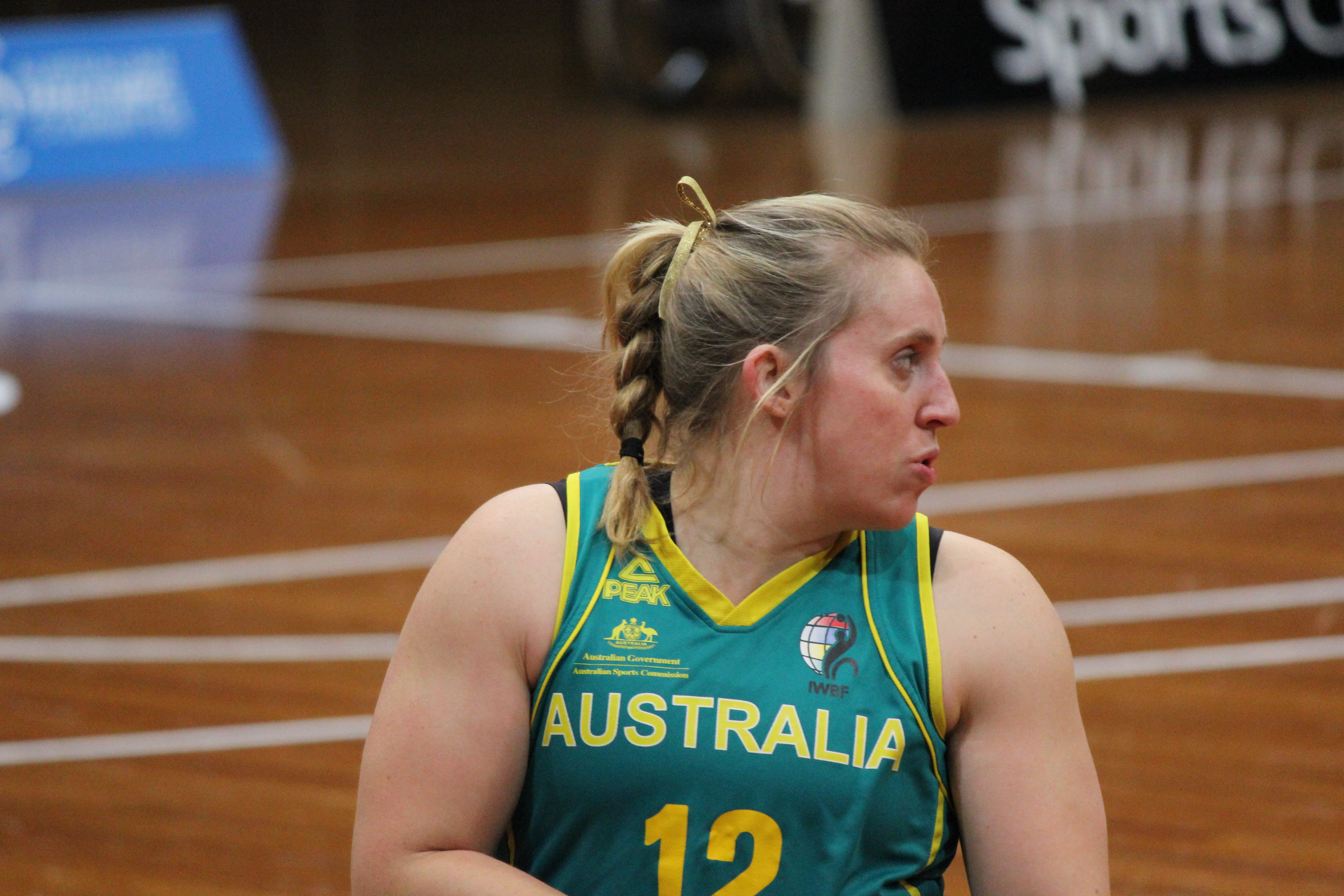 Aussie Gilder player Shelley Chaplin in July 2012 in Sydney.